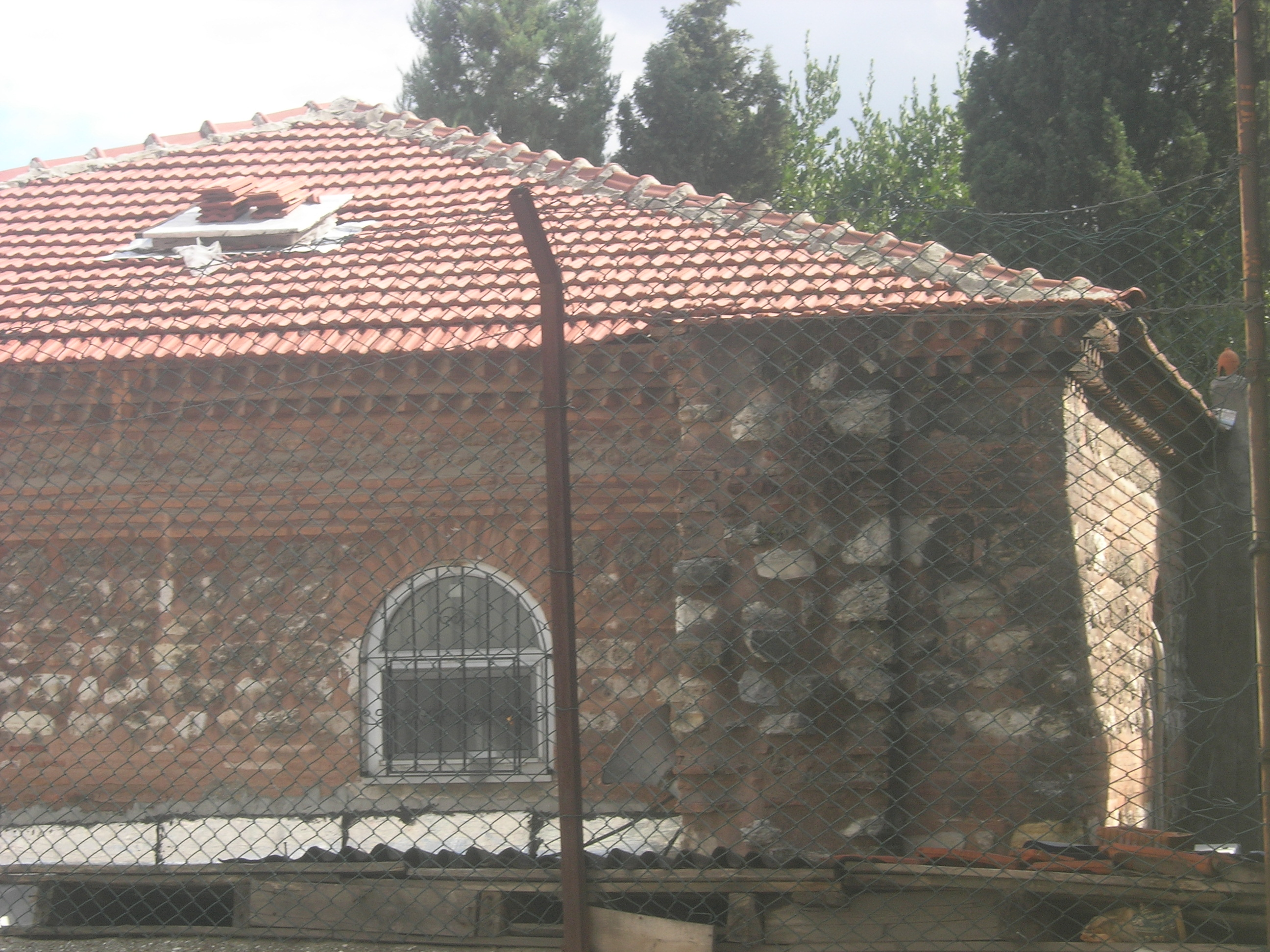 The Kasim Aĝa Mescidi in Istanbul